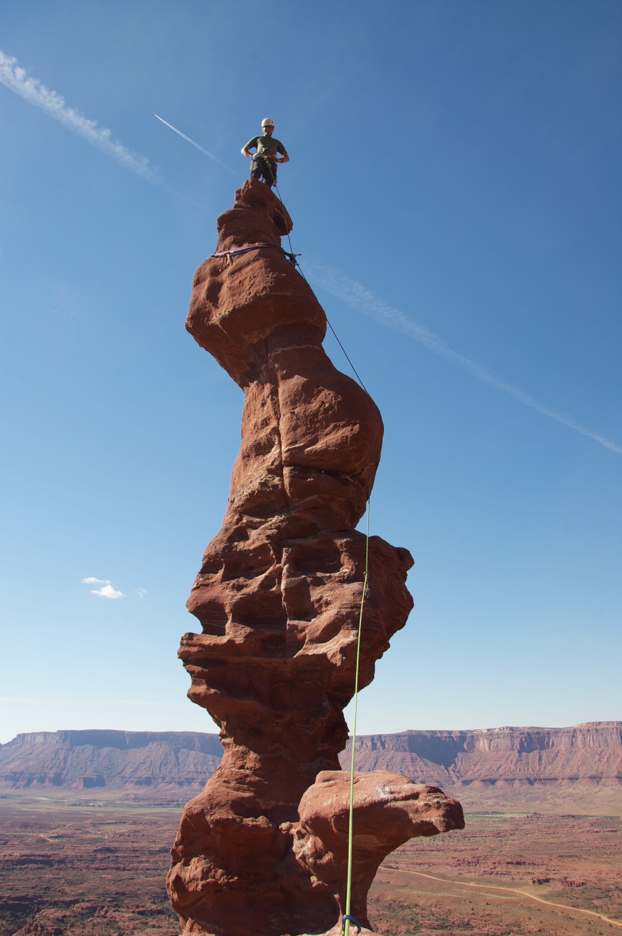 The Summit